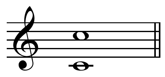 Perfect octave on C = C. Just: 2:1 = 1200 cents. Equal-tempered: 212/12:1 = 1200 cents. Limit: 3-limit.